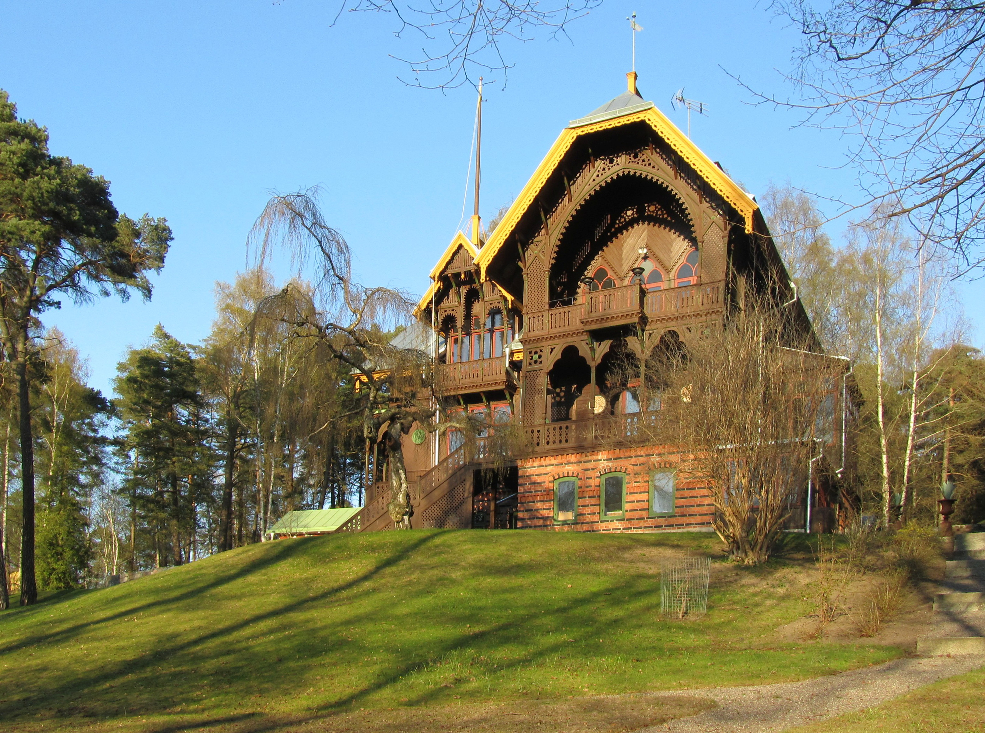 Villa Skogsborg, Ulriksdal, Solna.